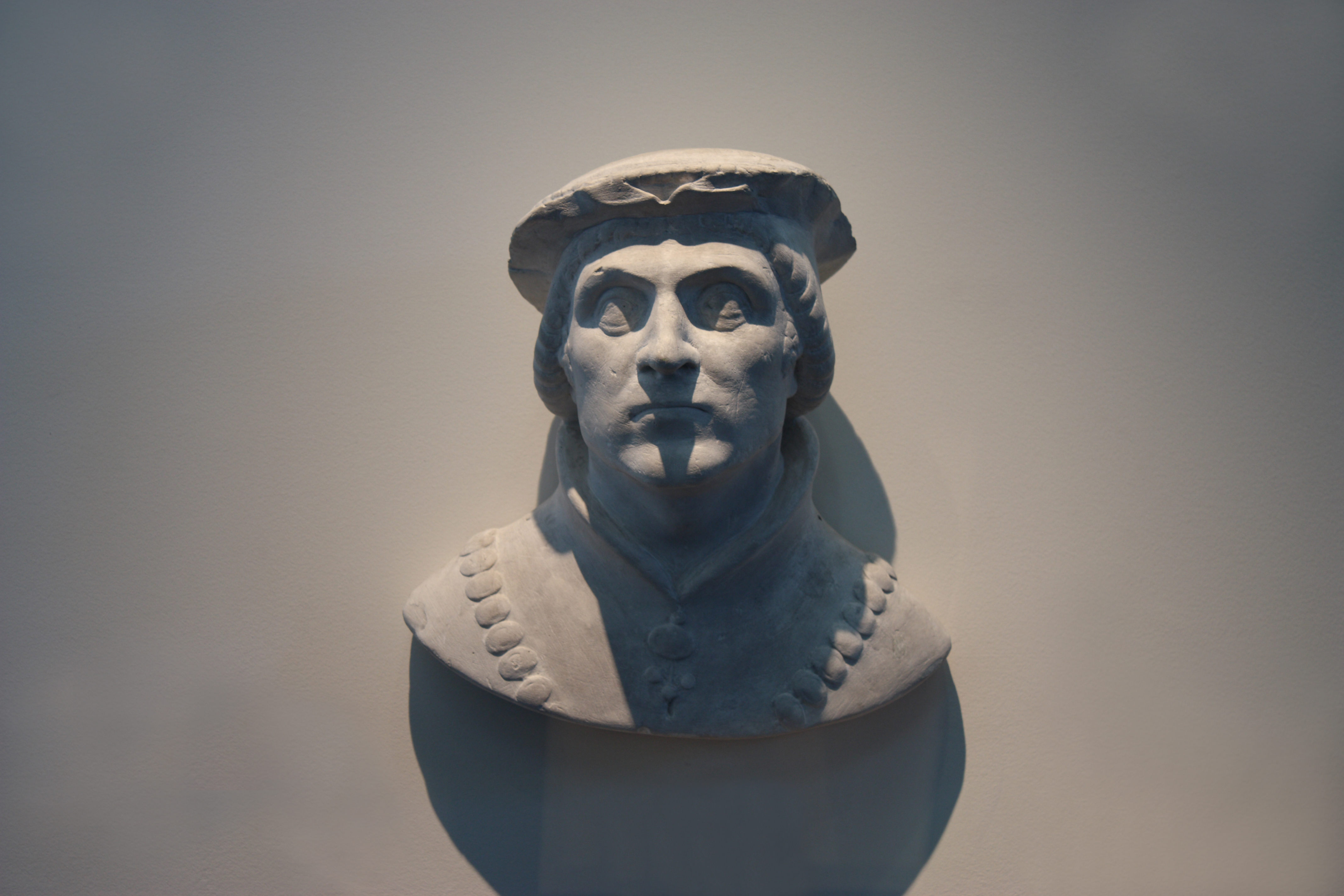 Bust of Humbert I of Viennois, baron of and Dauphin de Viennois. Copy of a XVIth century bust.